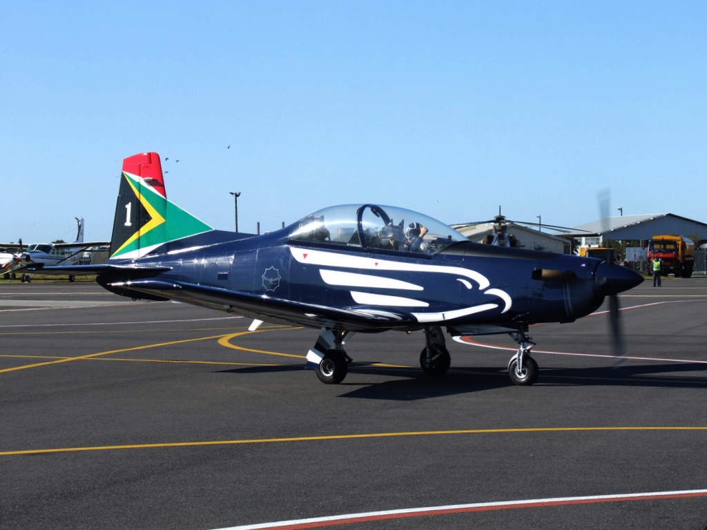 Silver Falcons PC-7 Mk II Nbr 1 (2023)